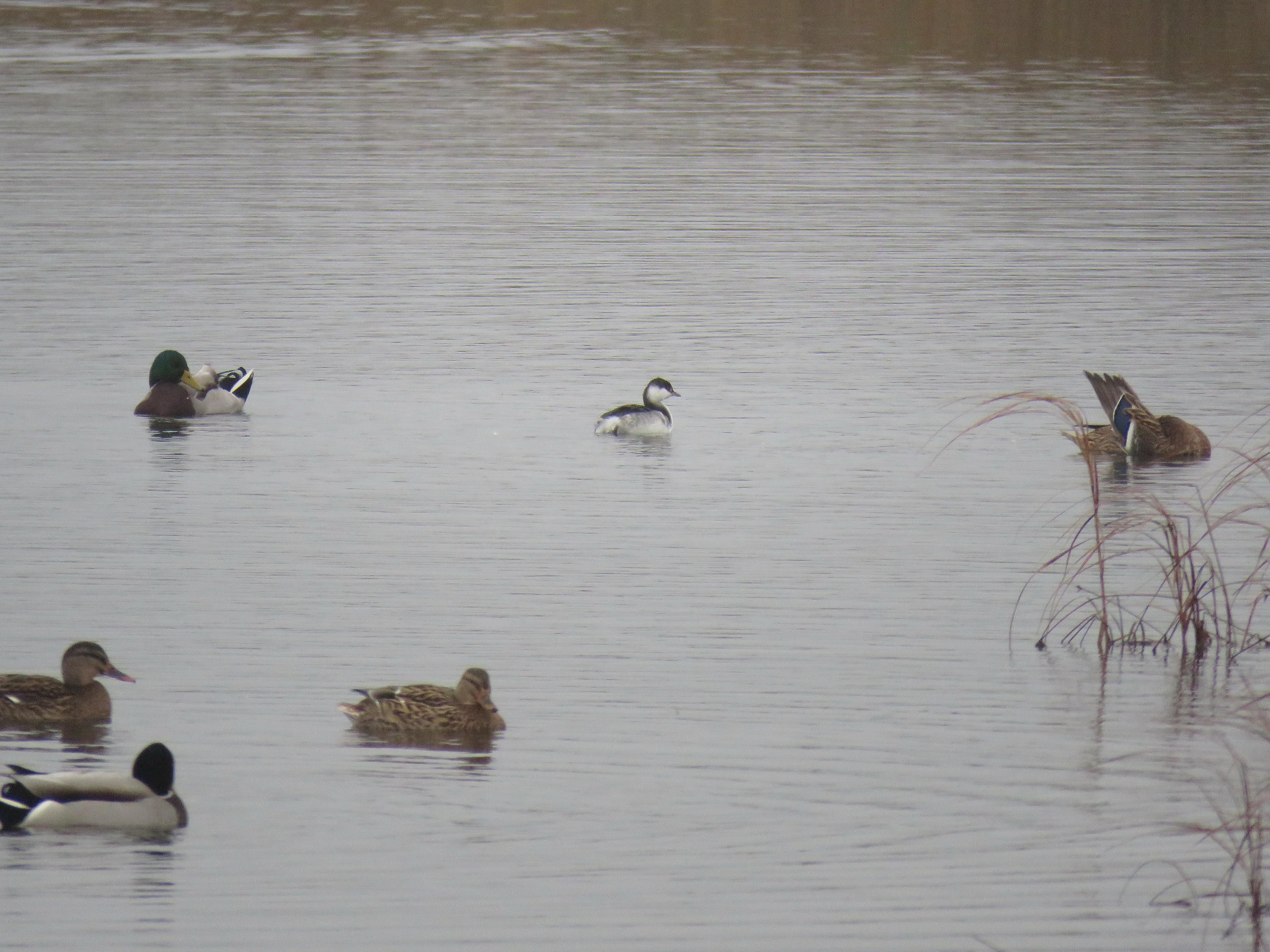 Podiceps auritus (Linnaeus, 1758), Slavonian Grebe, and Anas platyrhynchos Linnaeus, 1758, Mallard, Ølsemagle Revle, Denmark, 21 October 2017